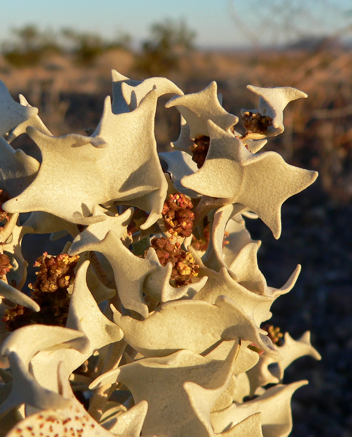 Atriplex hymenelytra near Ash Meadows, southern Nevada